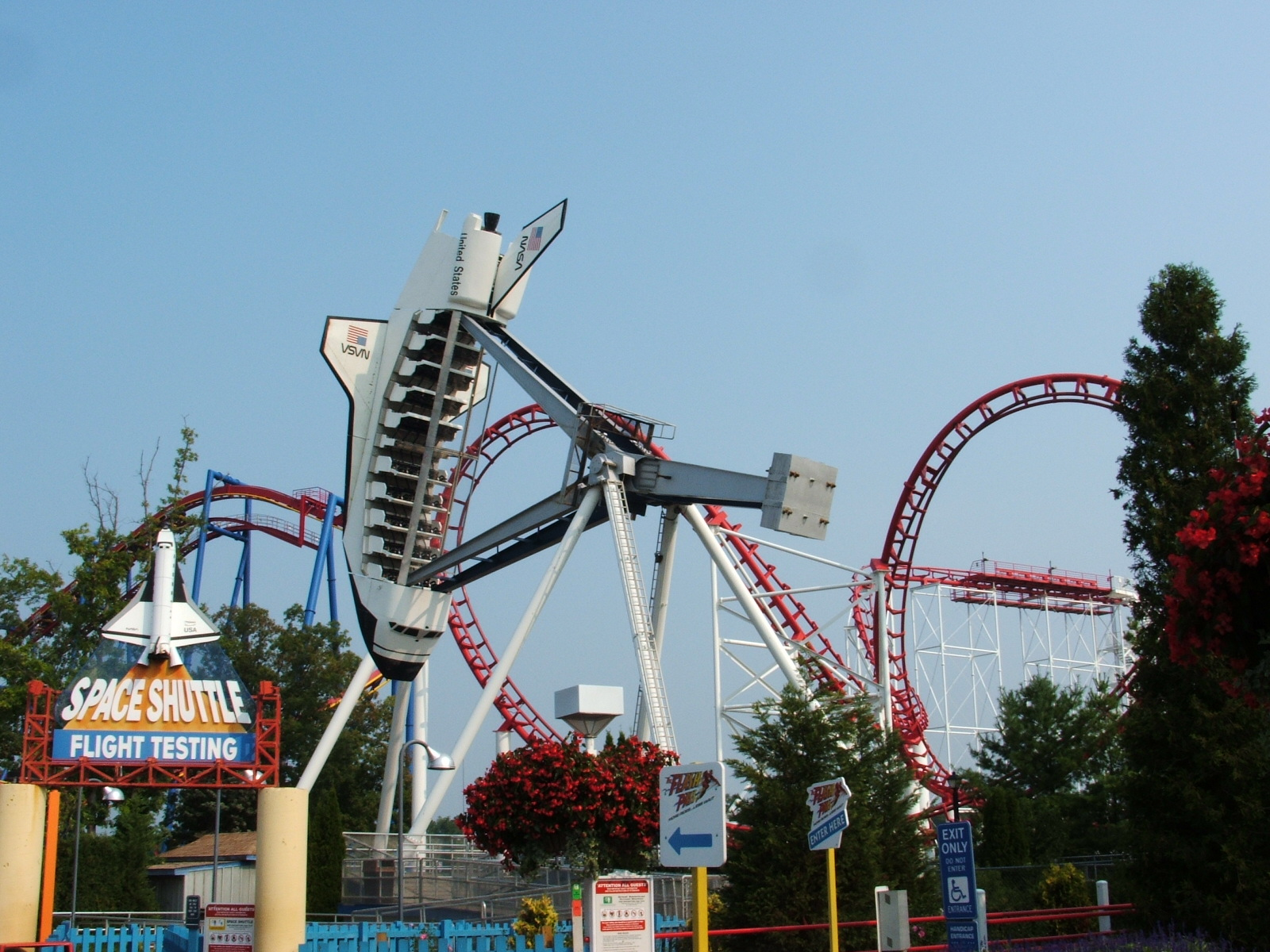 Looping Starship "Space Shuttle" amusement ride in operation at Six Flags Great Adventure